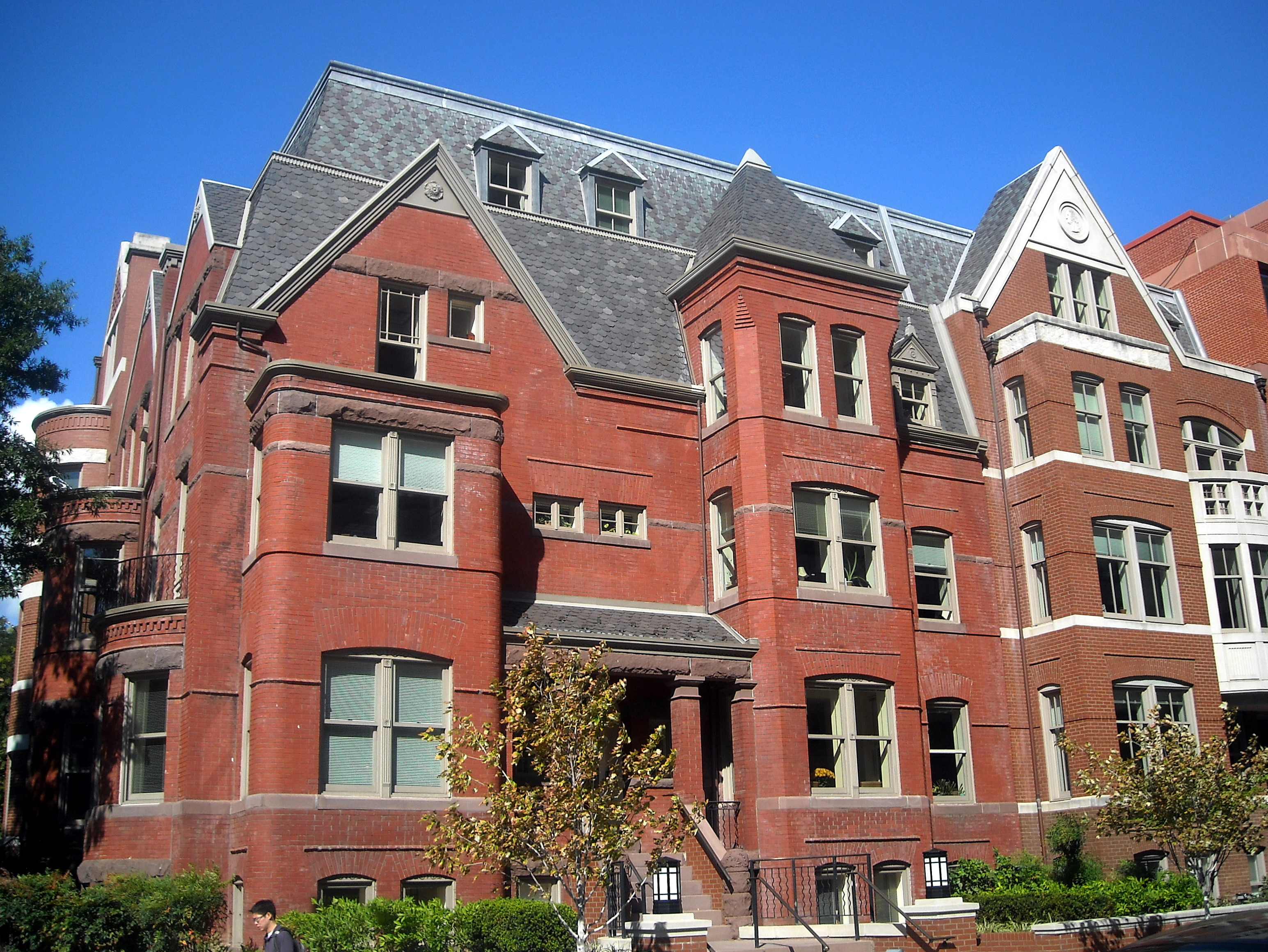 The George Washington University's President's Office (now part of The George Washington University Law School facility) located at 2003 G Street, NW (also known as 700 20th Street, NW) in the Foggy Bottom neighborhood of Washington Designed by George S. Cooper and Victor Mendeleff in 1892, the Second Empire building is listed on the National Register of Historic Places.